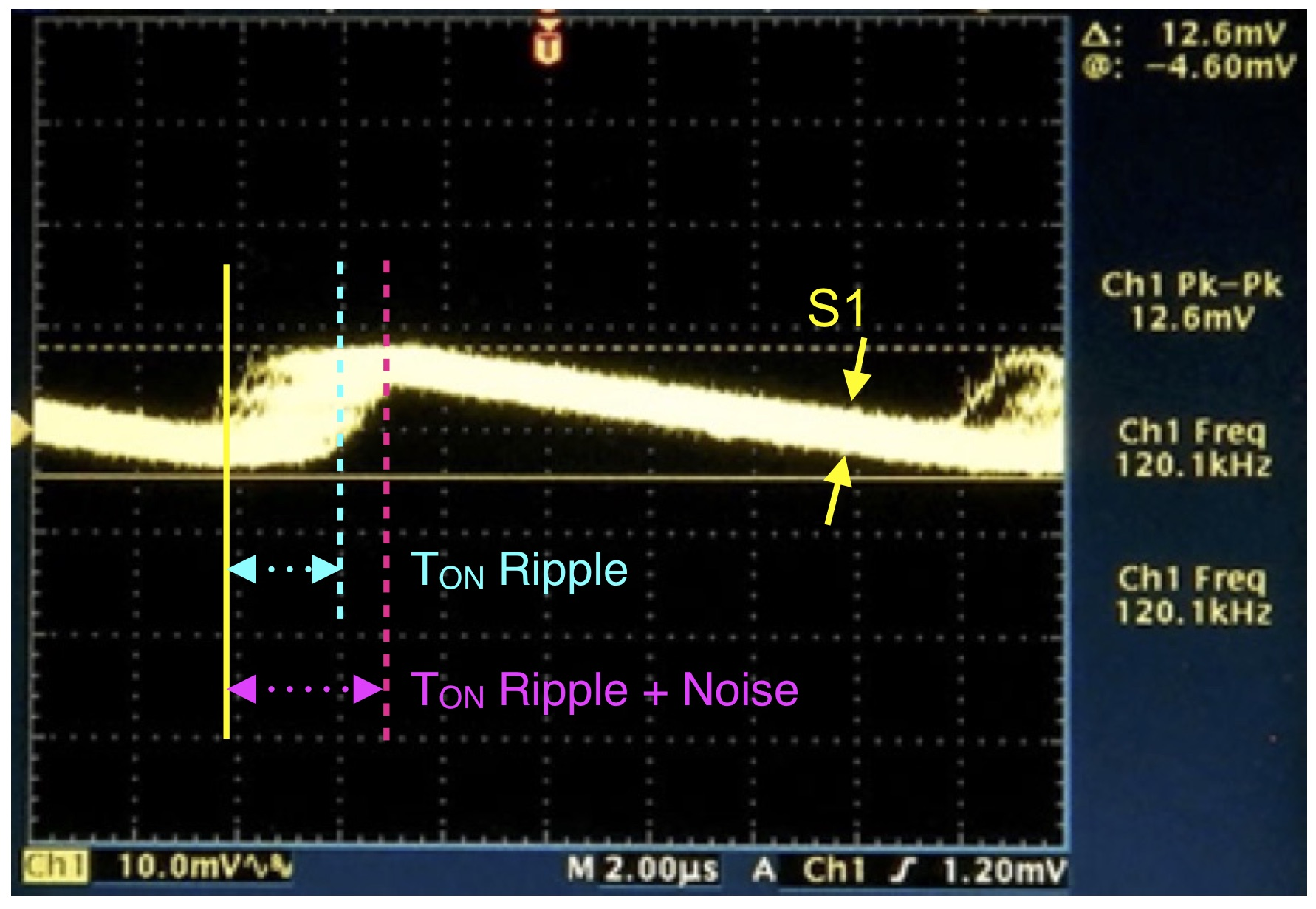 Oscilloscope image of the output voltage ripple after SNJ conditioning